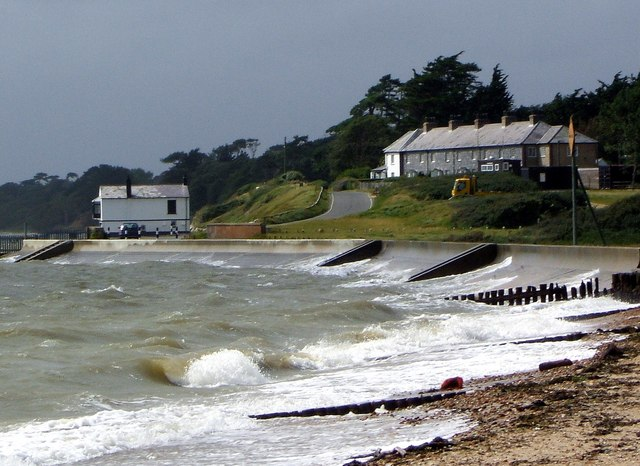 View towards Coast Guard Cottages, Lepe